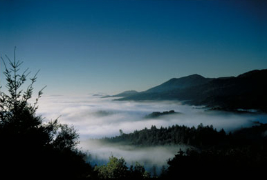 Spring Mountain District vineyards — above the fog in the Napa Valley. Spring Mountain Vineyard harvest 2005, Napa County, California.